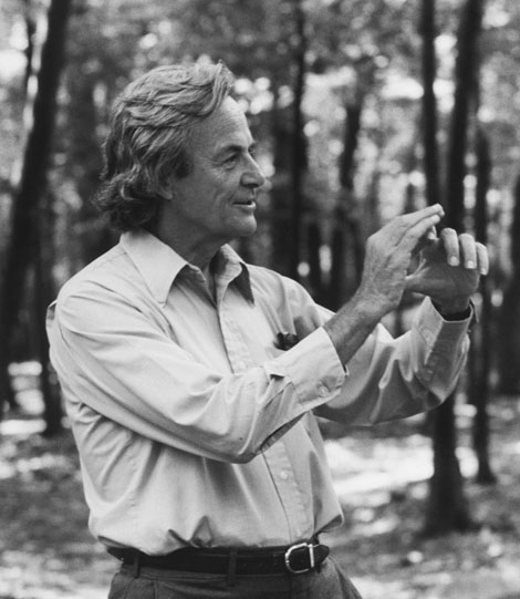 Photo of Richard Feynman, taken in 1984 in the woods of the Robert Treat Paine Estate in Waltham, MA, while he and the photographer worked at Thinking Machines Corporation on the design of the Connection Machine CM-1/CM-2 supercomputer.